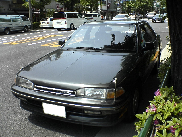 Toyota Carina series T170 sedan